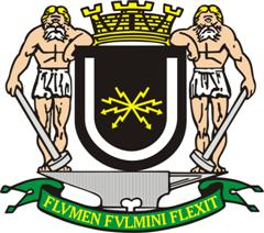 Coat of Volta Redonda, a Brazilian city.